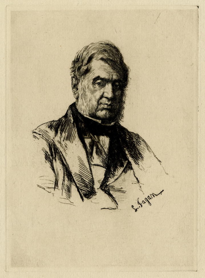 Frontispiece to Fagan's 'Life of Panizzi' (1880). Etching (192 x 138 mm). British Museum.